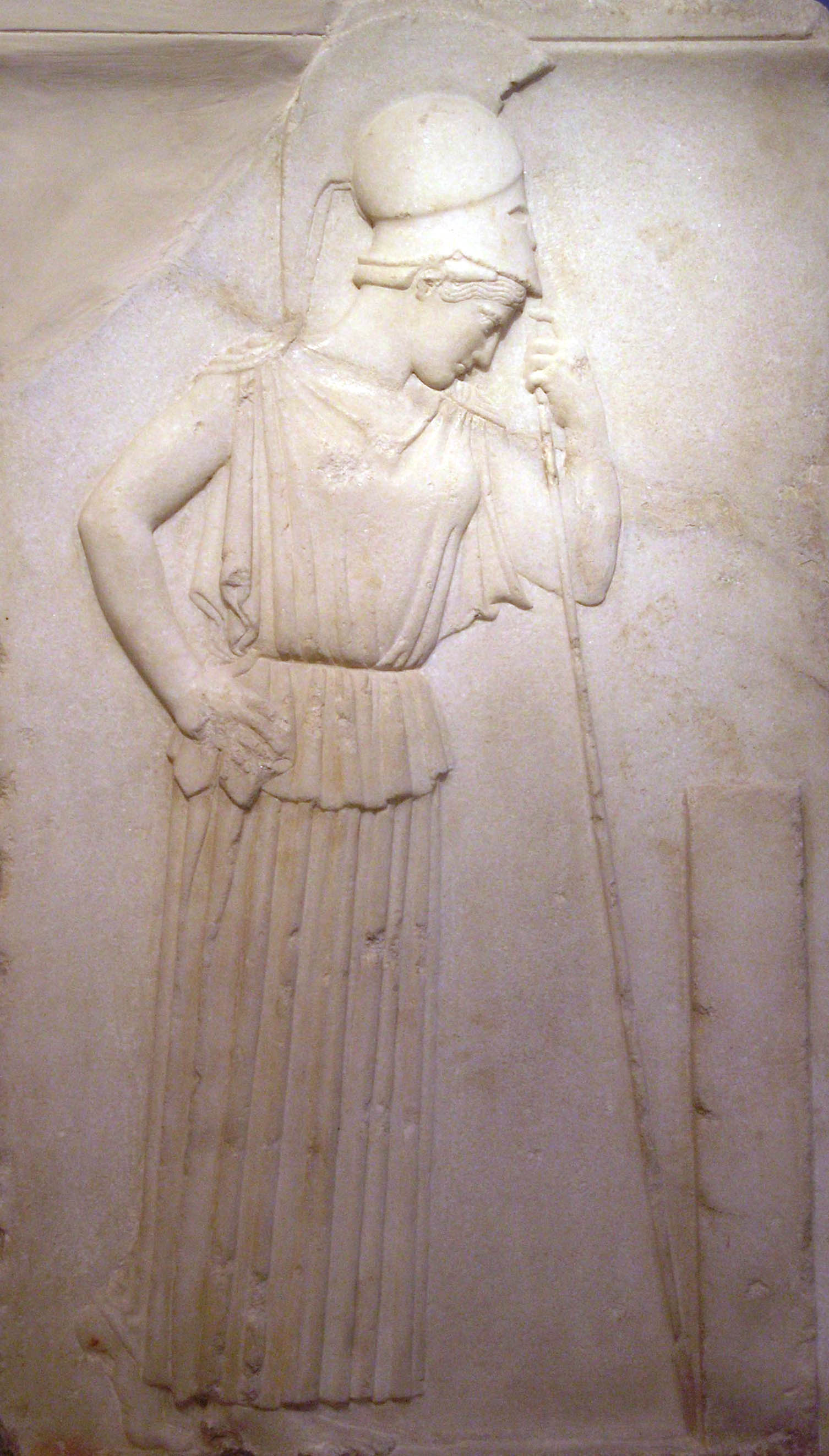 The goddess wears an Attic peplos and a Corinthian herlmet; she rests her head on her spear. The head slightly bowed, she contemplates a rectangular stele in front of her, perhaps a terminal boundary of a sanctuary, or a tombstone.